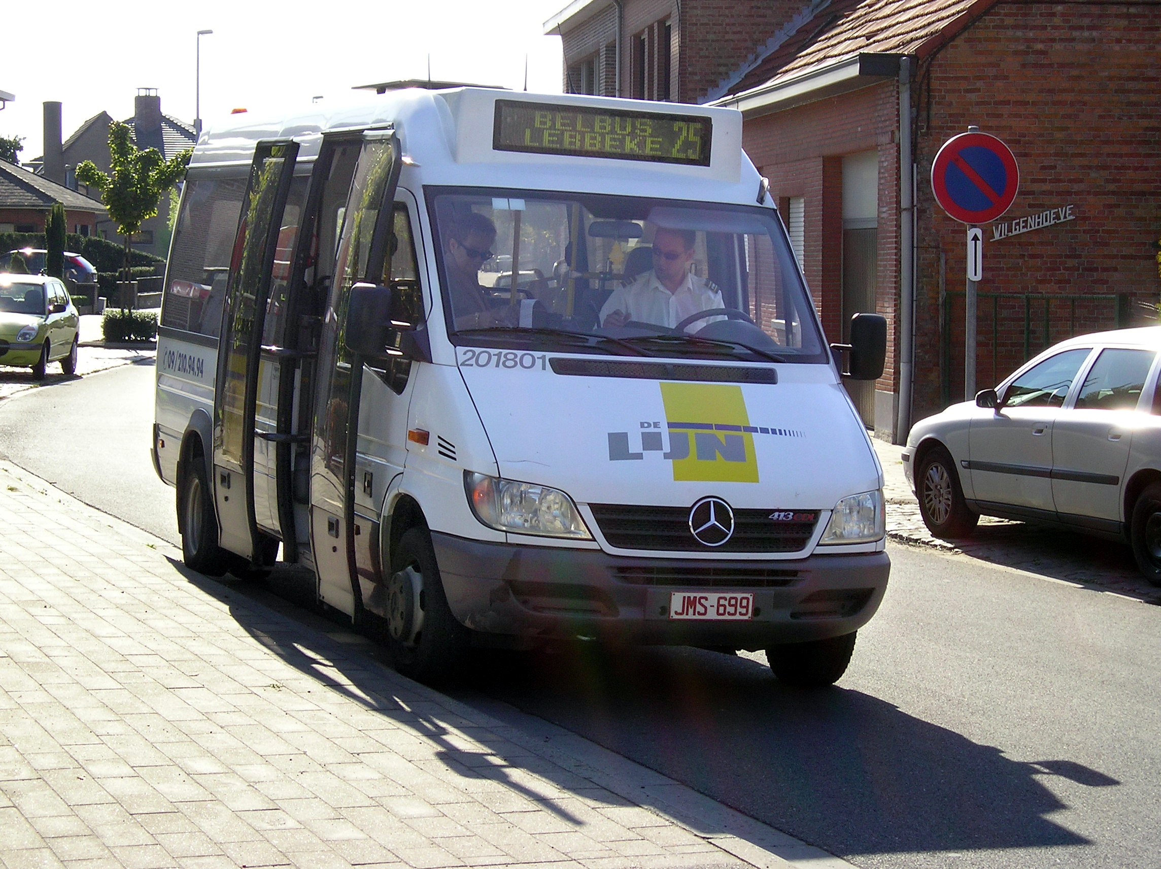 Belbus (callbus) in Sint-Gillis-bij-Dendermonde near the town of Dendermonde (Belgium), Spoorwegstraat street near intersection with Lange Dijkstraat street. Belbus is operated by Flemish public transport company De Lijn. The fee is the same as on the ordinary bus. The bus is ordered by telephone. The bus is not a taxi: it only operates insinde defined zone and only stops on defined stops.